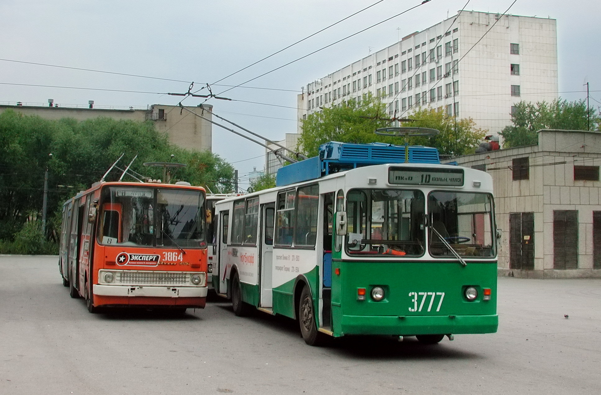 Trolleybuses Ikarus-Ganz and ZiU-9 at the "Park kultury i otdykha" stop in Chelyabinsk